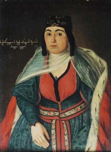 Princess Thecla of Georgia, daughter of Erekle II